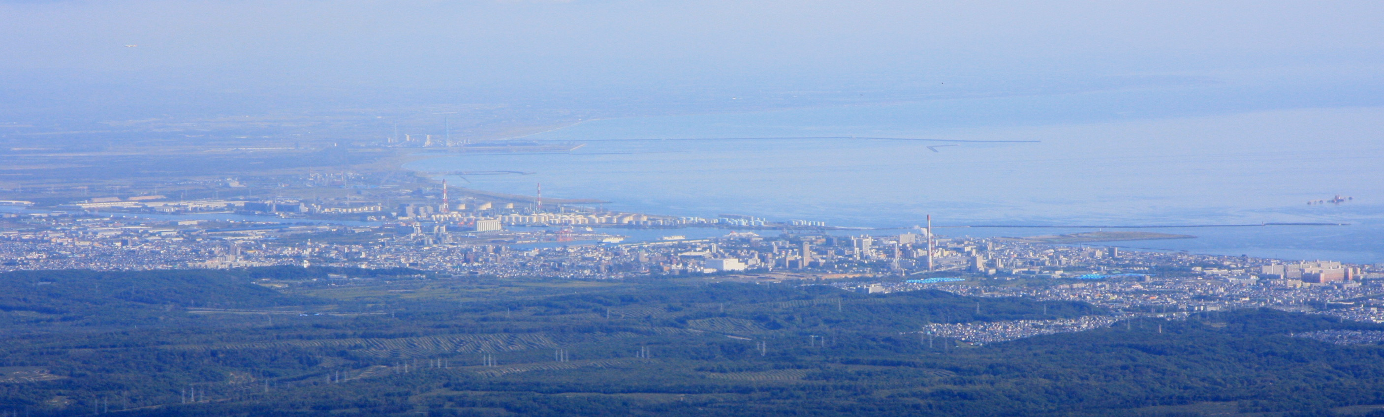 Port of Tomakomai seen from Mount Tarumae